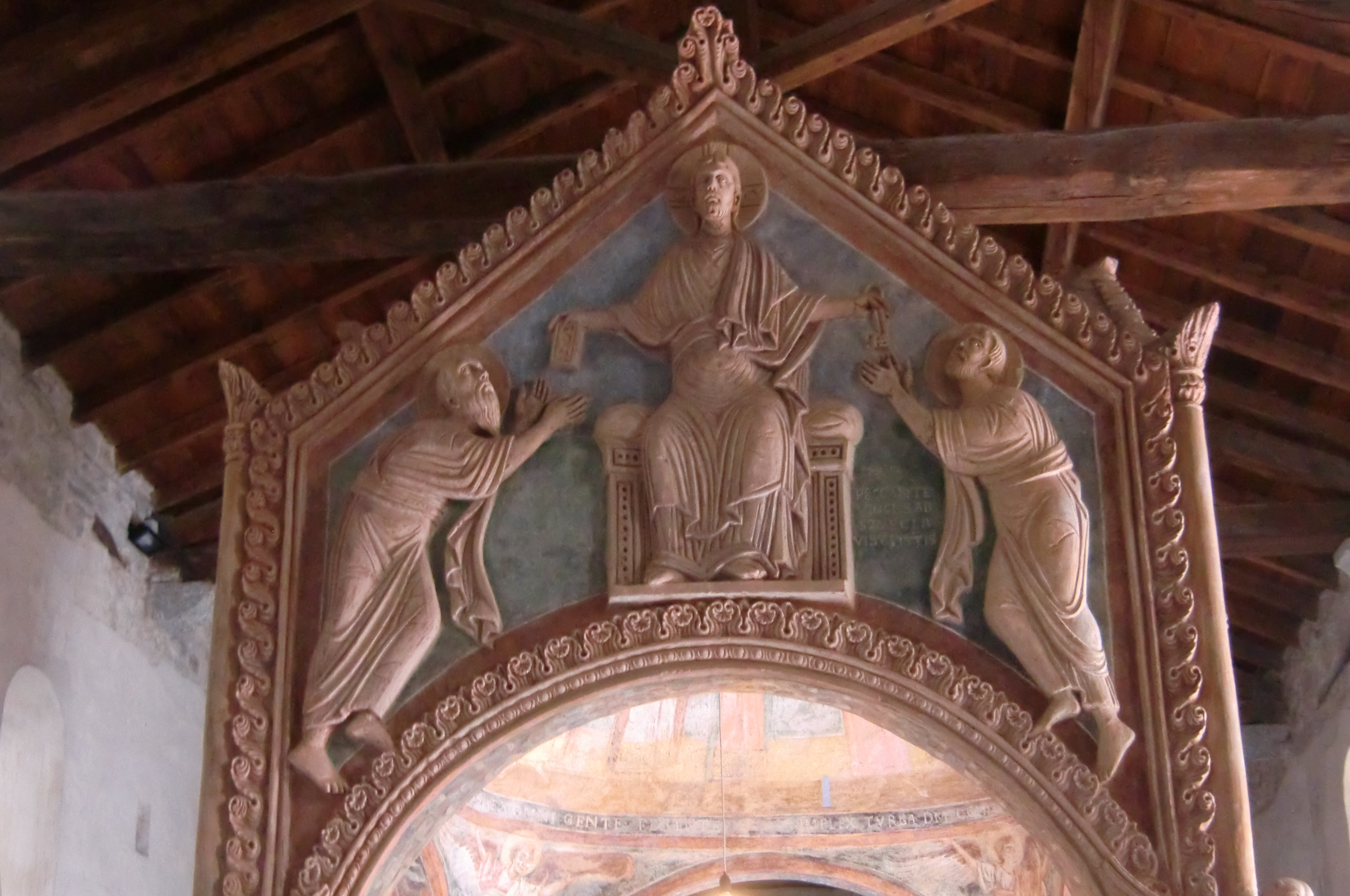 Unknown sculptor, Delivery of the laws and keys, front of the ciborium , stucco relief, end of the XI century, San Pietro al Monte church, Civate (Italy)